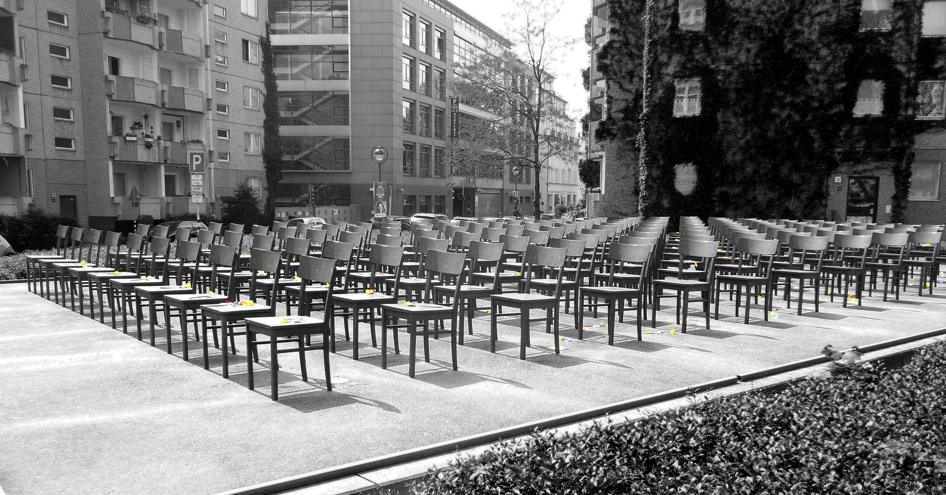 Memorial at the site of the former Great Synagogue in Leipzig, Gottschedstrasse corner Zentralstrasse. Seen from northeast.